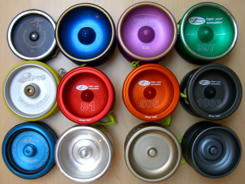 Modern metal yoyos